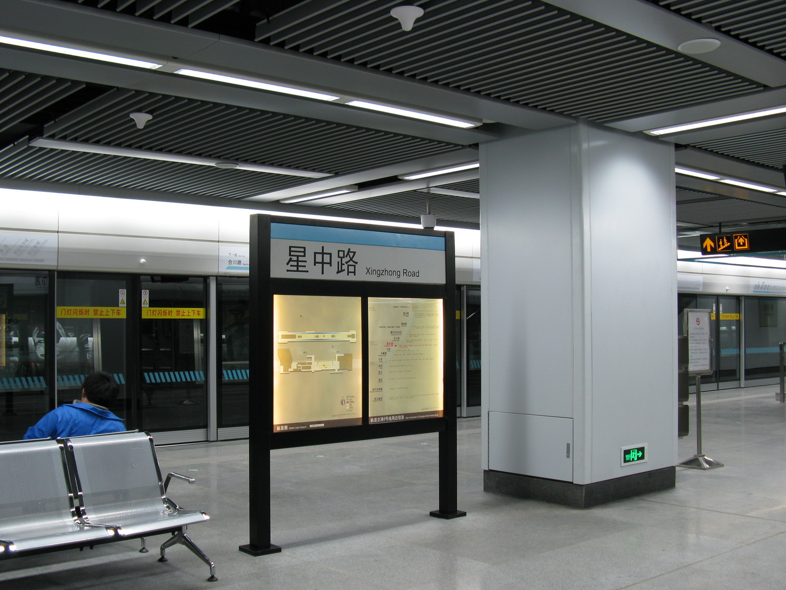 Line 9 Platform of Xingzhong Road Station